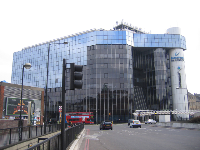 Inmarsat glass building, City Road, London. view from the Old Street roundabout.